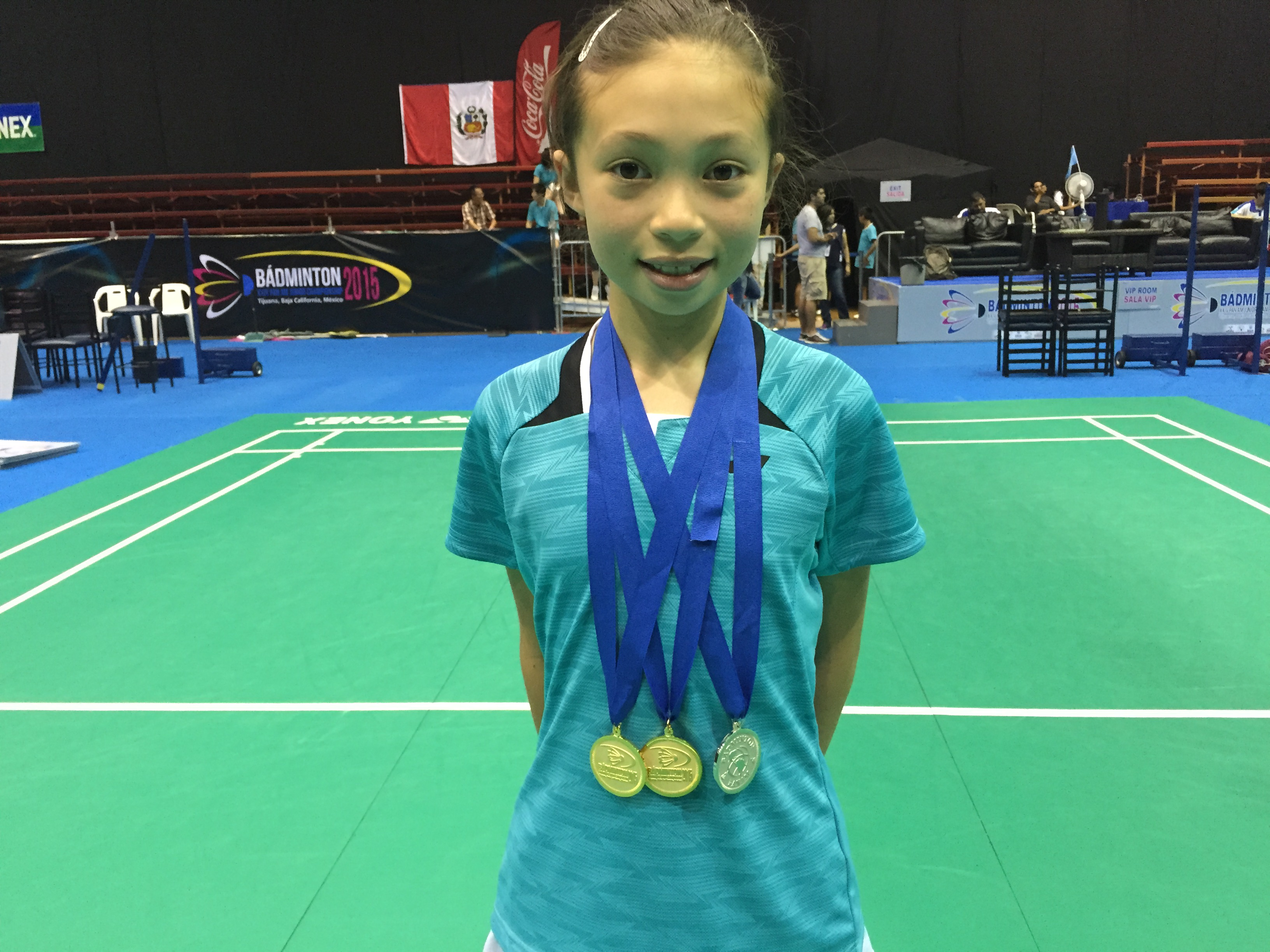 Francesca Corbett takes Gold in Girl's Single and Girl's Doubles at the Pan Am Games in Tijuana, Mexico in 2015